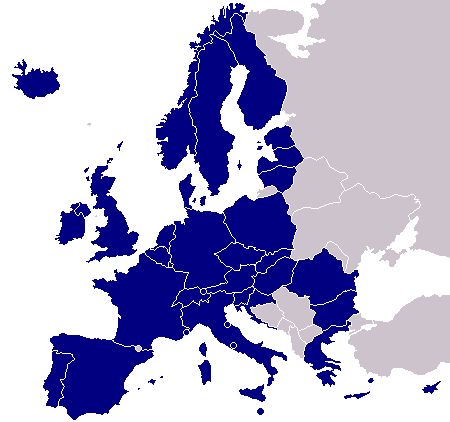 Single Euro Payments Area (Single Euro Payments Area) countries